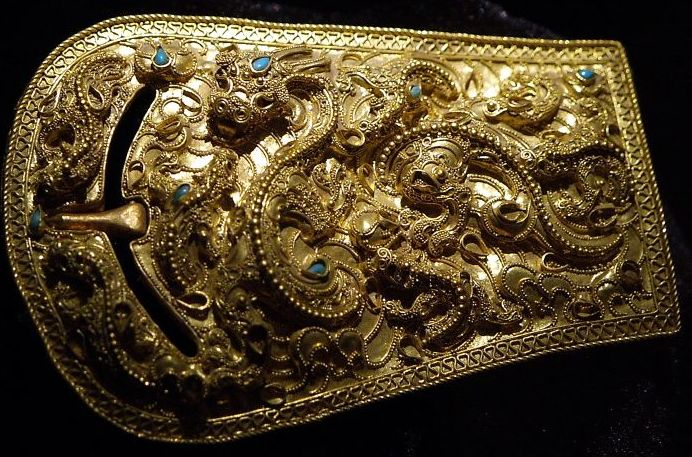 Seogamni Gold Buckle of Pyeongyang(National Treasures No.89 of South Korea) Chinese Golden Belt Buckle from Han Dynasty's Lelang Commandery, excavated in Pyongyang, North Korea. Rare instance of a foreign artifact being designated 'National Treasure' status in South Korea.